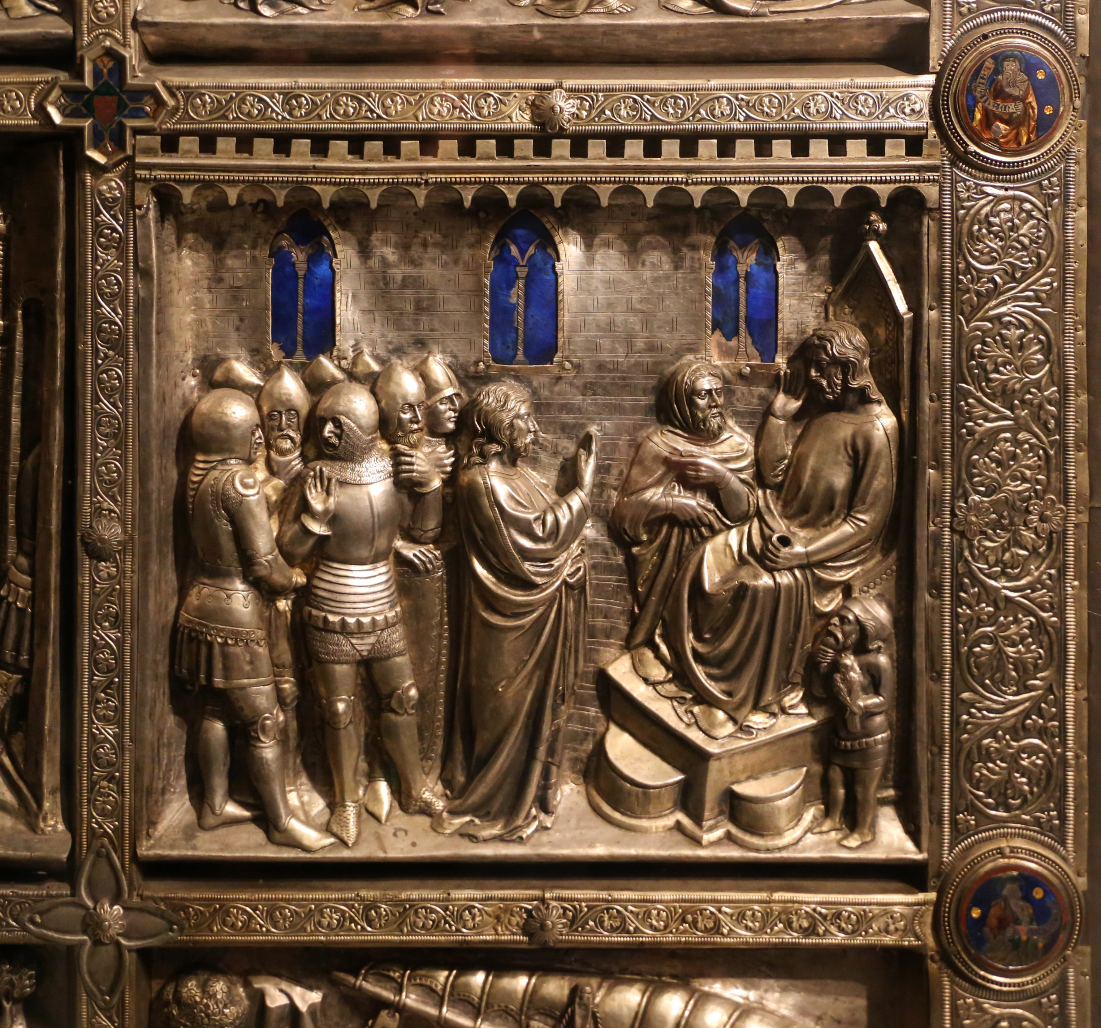 Silver Altar of Saint James